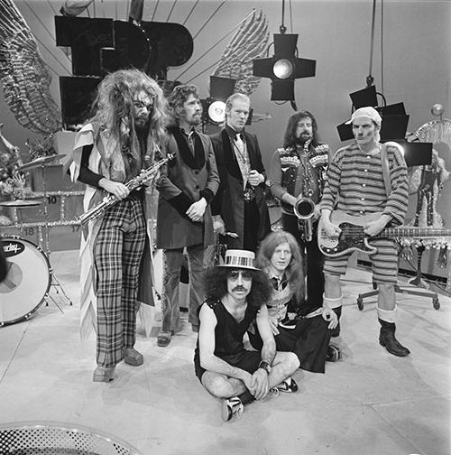 Wizzard in AVRO's TopPop (Dutch television show) in 1974